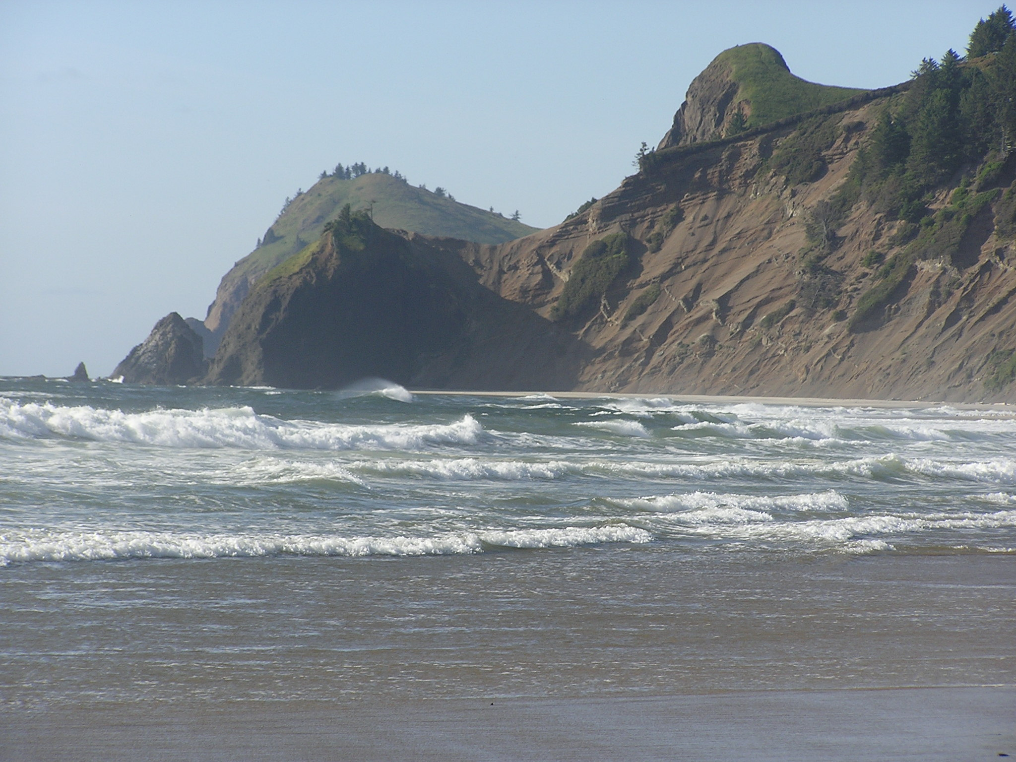 The beach at Road's End State Park in Lincoln City, OR